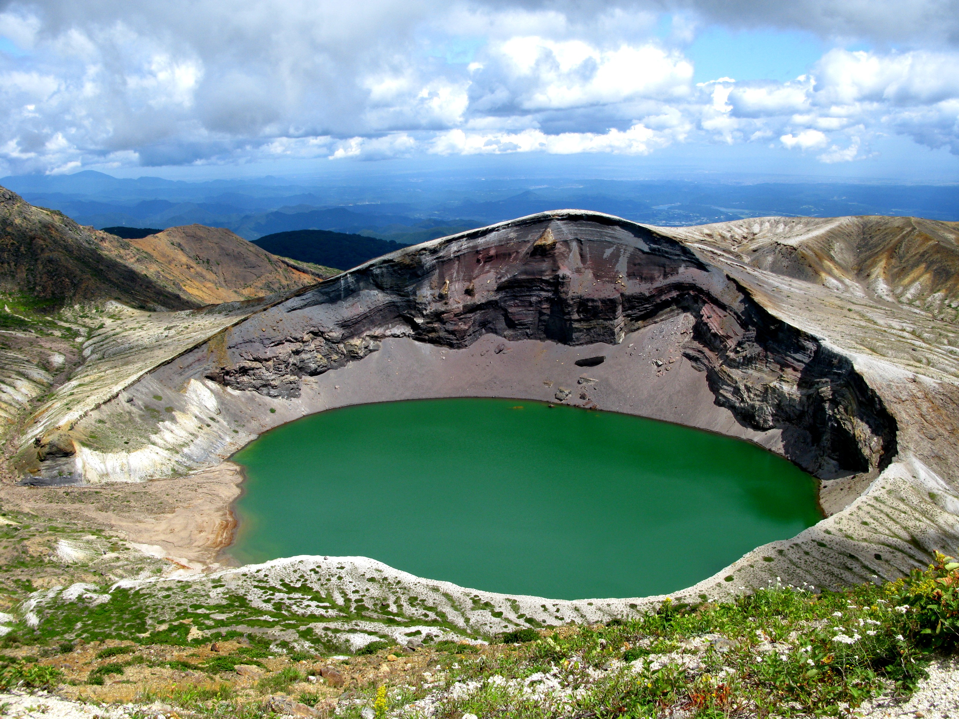 Mt. Zao, Lake Okama, Miyagi pref., Japan